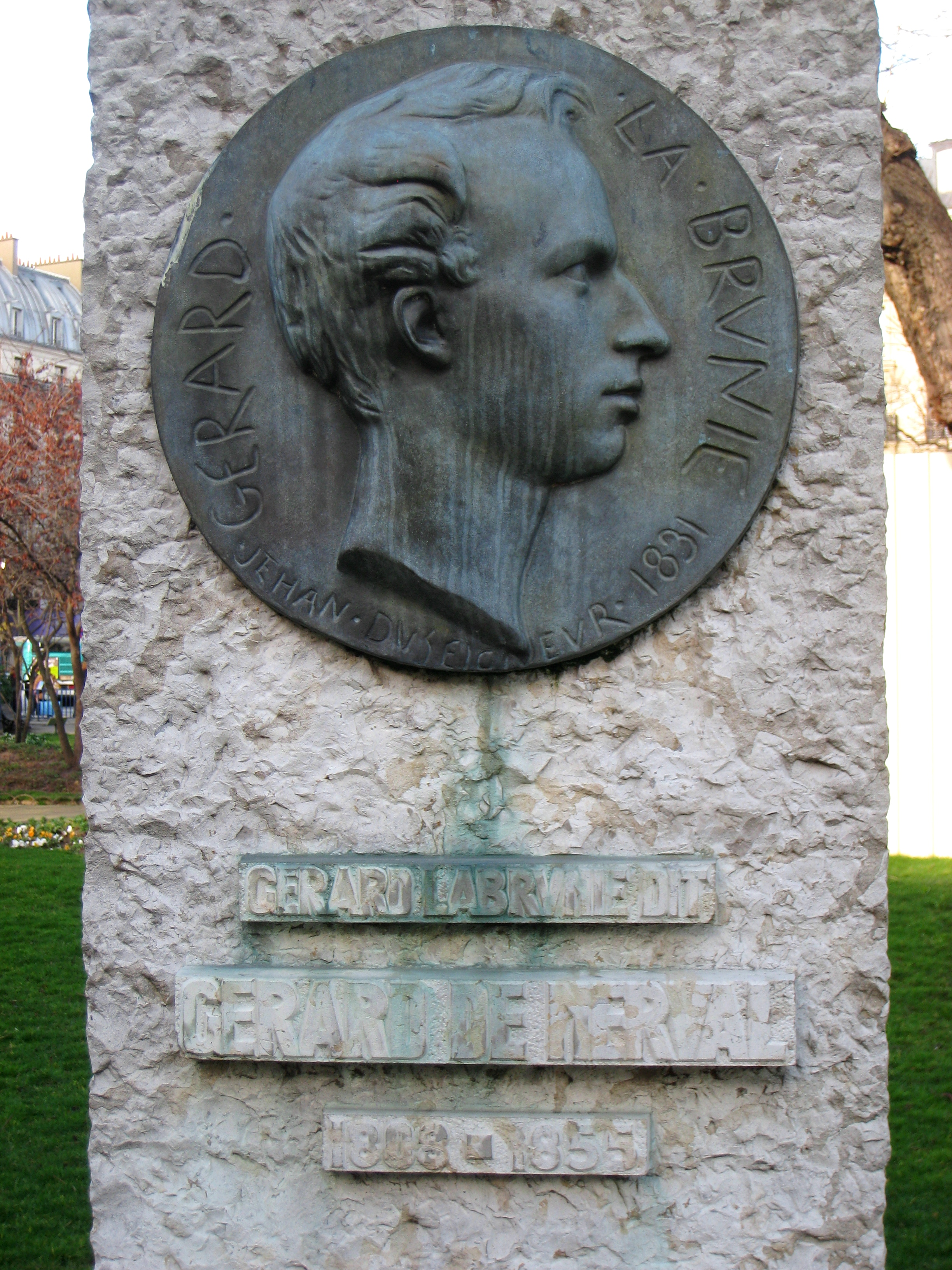 Bas relief by Jehan Duseigneur (1808-1866) of poet Gérard de Nerval (Gérard Le Brune), square de la Tour-Saint-Jacques, Paris, France. This work was created in 1831, and is thus free from copyright restrictions.